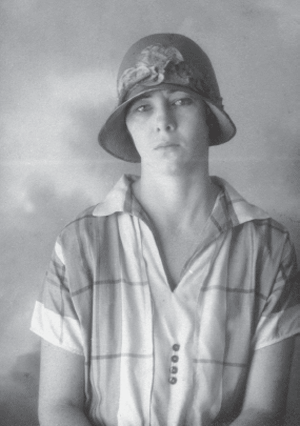 Madelon Székely-Lulofs (1899-1958). Photographer unknown; photo probably made around 1902